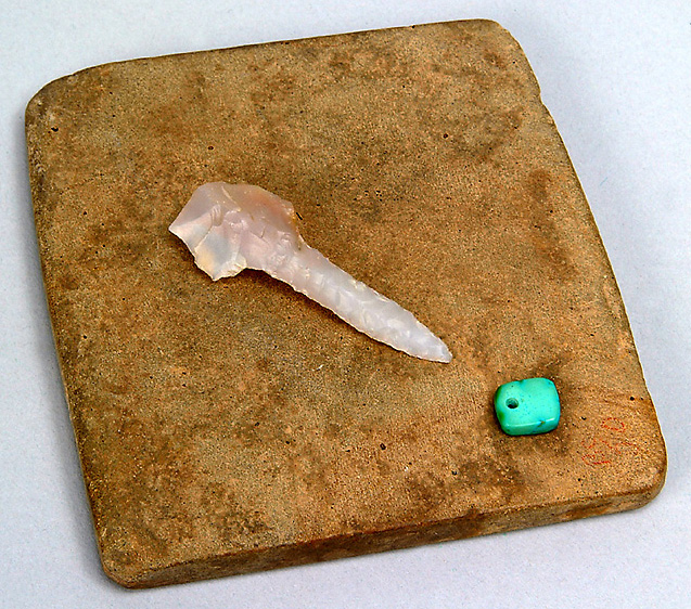 Lapidary Tool Kit Lapidary Abrader [below] Chaco Anasazi Site number, Bc 50 AD 900-1150 Sandstone. L 8.5, W 7.9, T 0.7 cm Chaco Culture National Historical Park, CHCU 1697 Drill Chaco Anasazi Site number, 29SJ 1612 AD 700-1200 Chert. L 4.5, W 0.7-1.5, T 0.6 cm Chaco Culture National Historical Park, CHCU 4379